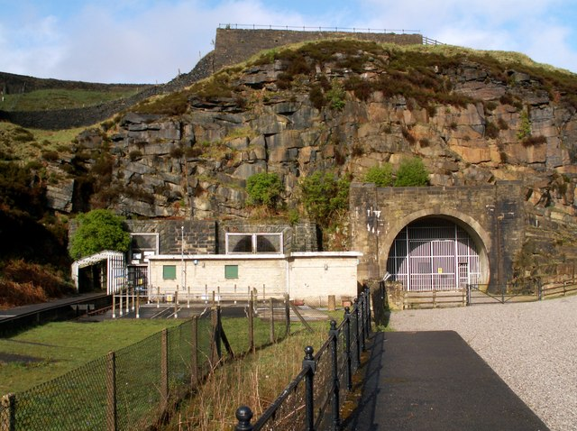 Woodhead Tunnel Entrances Taken from the old railway platform.